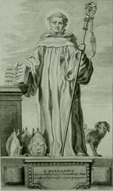 Baroque portrayal of St. Bernard with the rejected bishop's mitres and a dog.